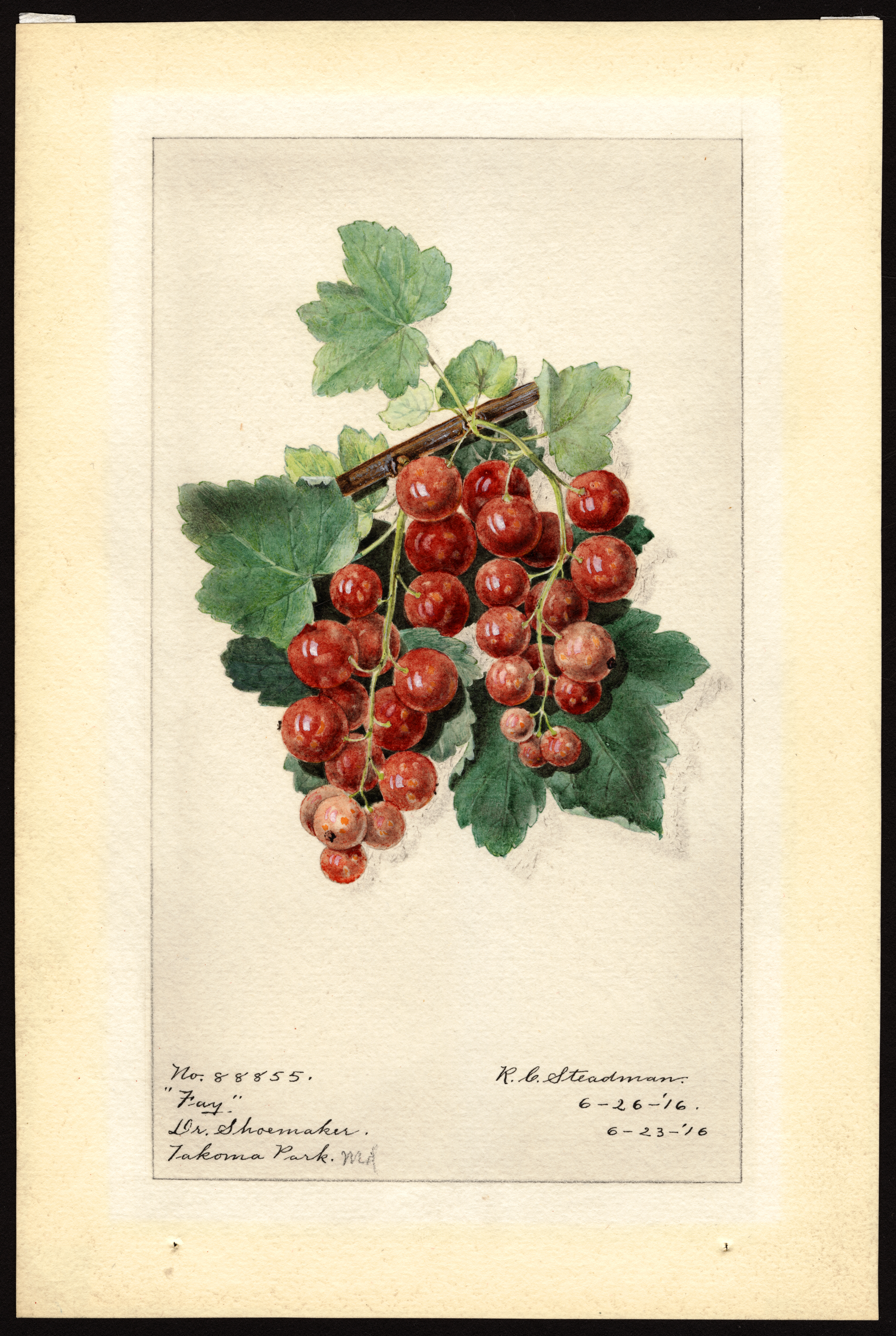 Image of the Fay variety of gooseberries (scientific name: Ribes), with this specimen originating in Takoma Park, Montgomery County, Maryland, United States. Source: U.S. Department of Agriculture Pomological Watercolor Collection. Rare and Special Collections, National Agricultural Library, Beltsville, MD 20705.